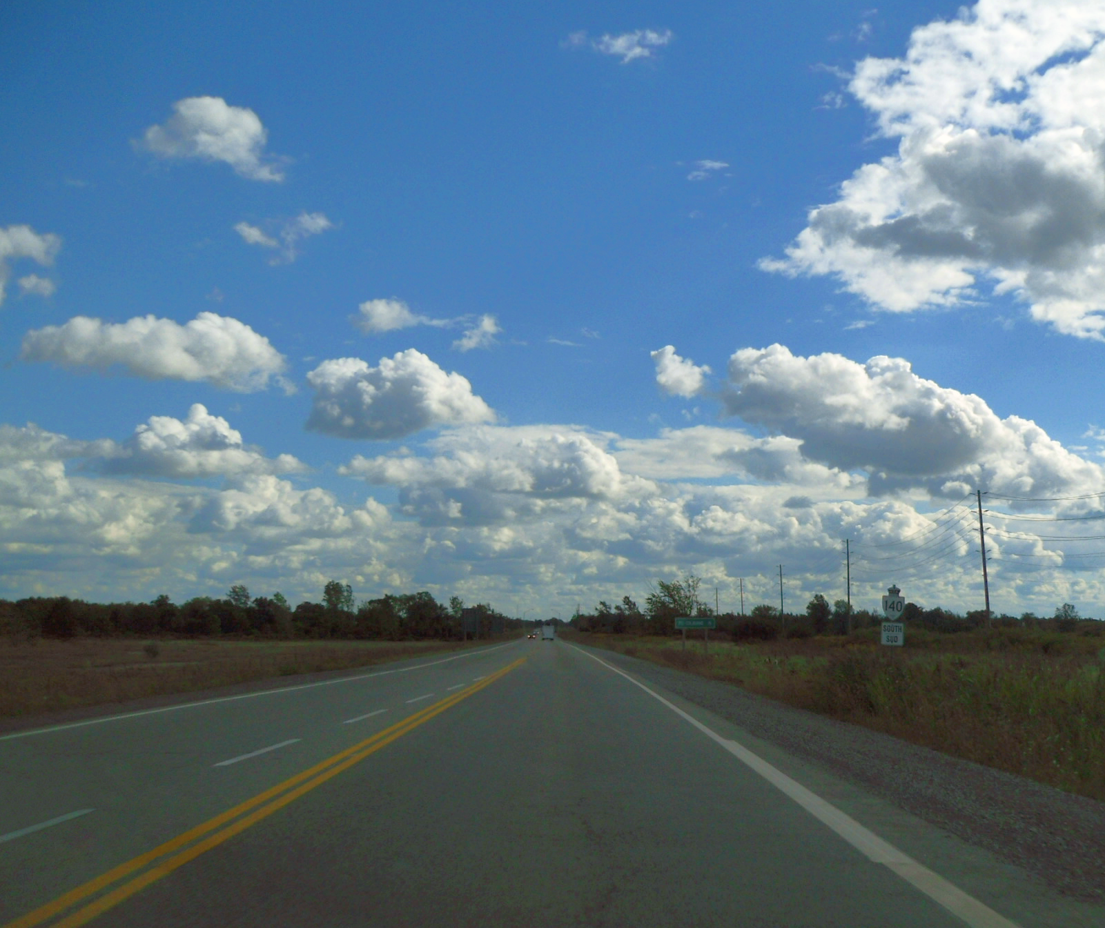 Highway 140 facing south from near the Main Street Tunnel in Welland, Ontario.